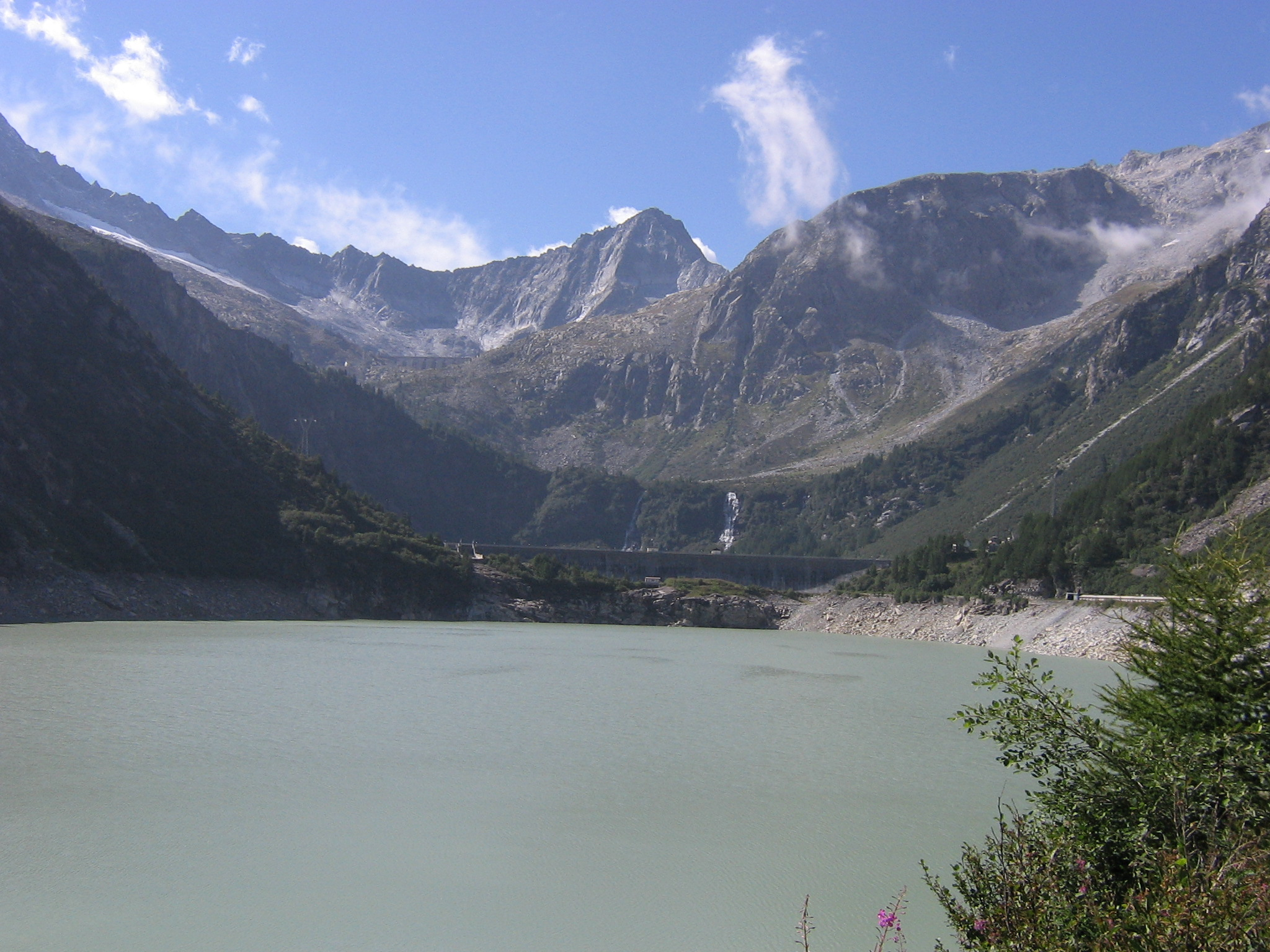 Lake Avio, an artificial lake located at 1907 meters above sea level near Temù, Val Camonica, Italy. On the background, Cima Plem (3184 m), one of the highest summits of Adamello mountains.